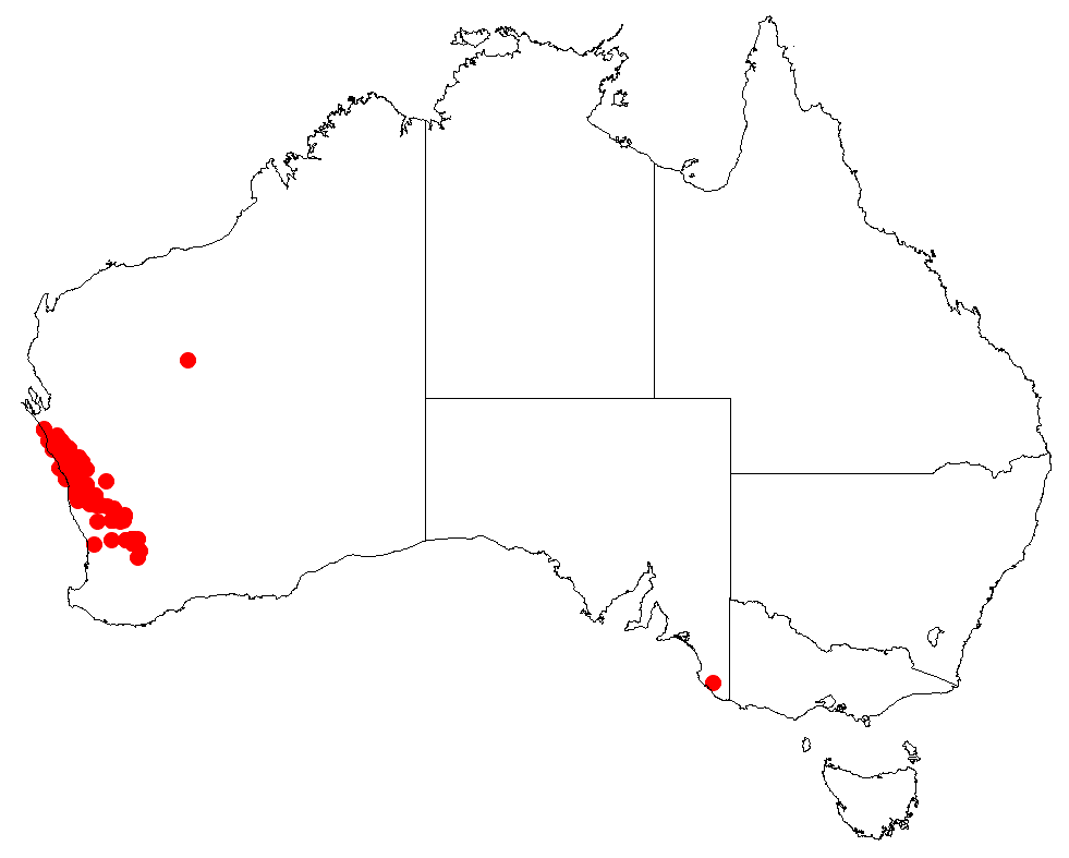 Hakea circumalata Occurrence data downloaded from Australasian Virtual Herbarium on 22 November 2018 using